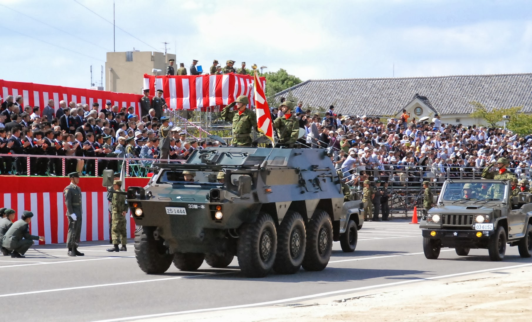 Title 第１０師団創立５１周年記念行事（守山）.JPG Album Events and Public Relations (イベント・行事・広報活動等) 第１０師団創立５１周年記念行事（守山）